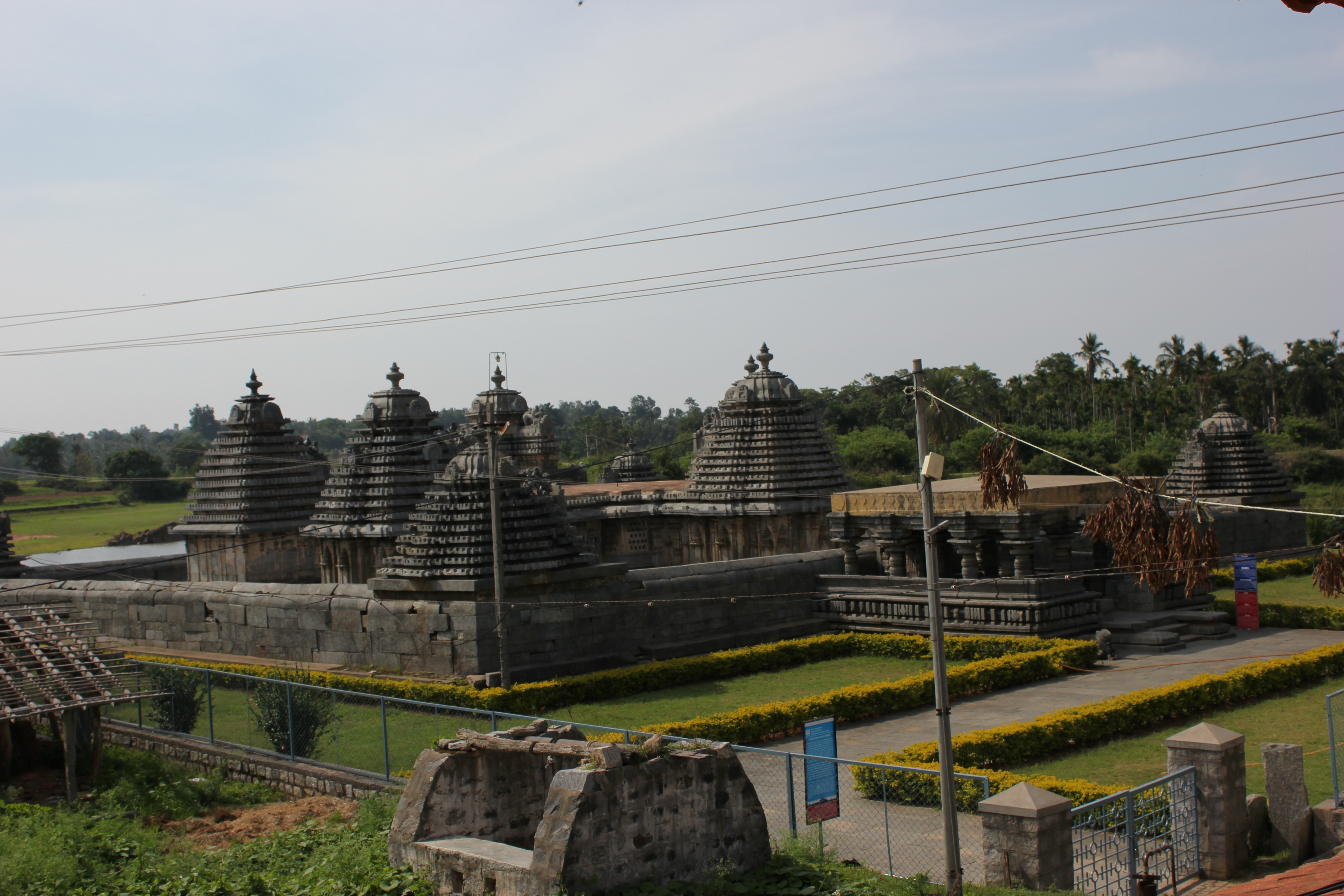 This photographh was taken by me (Dinesh Kannambadi) at the Lakshmi Devi Temple at Doddagaddavalli, Hassan district, Karnataka state, India. The temple was built in 1113 AD by Hoysala Empire King Vishnuvardhana.